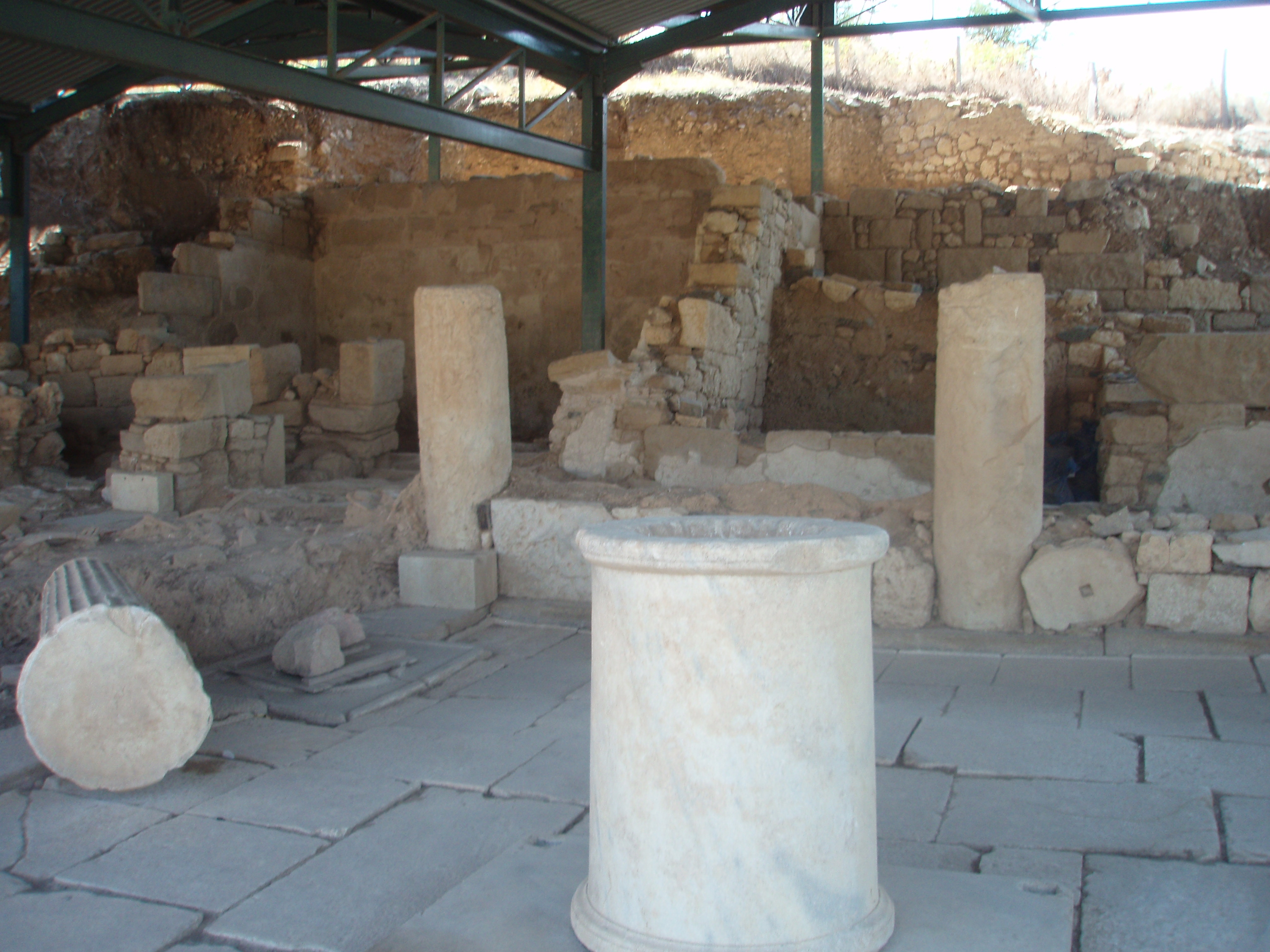 Ancient house of Akanthos city, exacavated in Ierissos village, Stagira-Akanthos municipality, Chalkidiki prefecture, Greece.